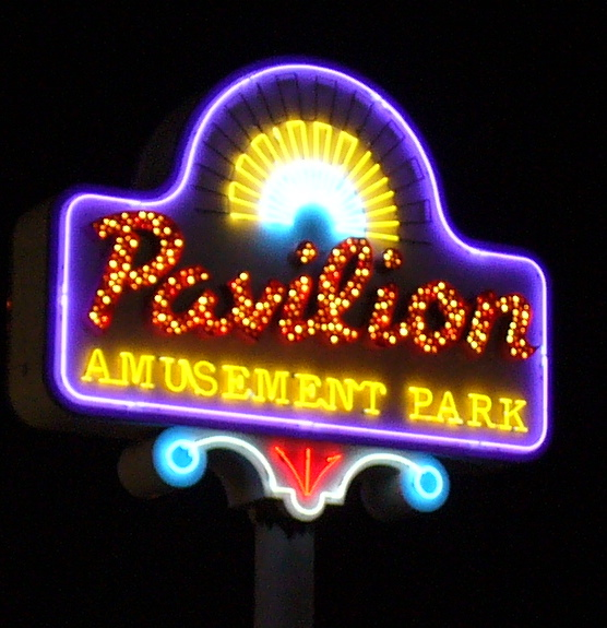 Sign at the entrance to the Myrtle Beach Pavilion theme park